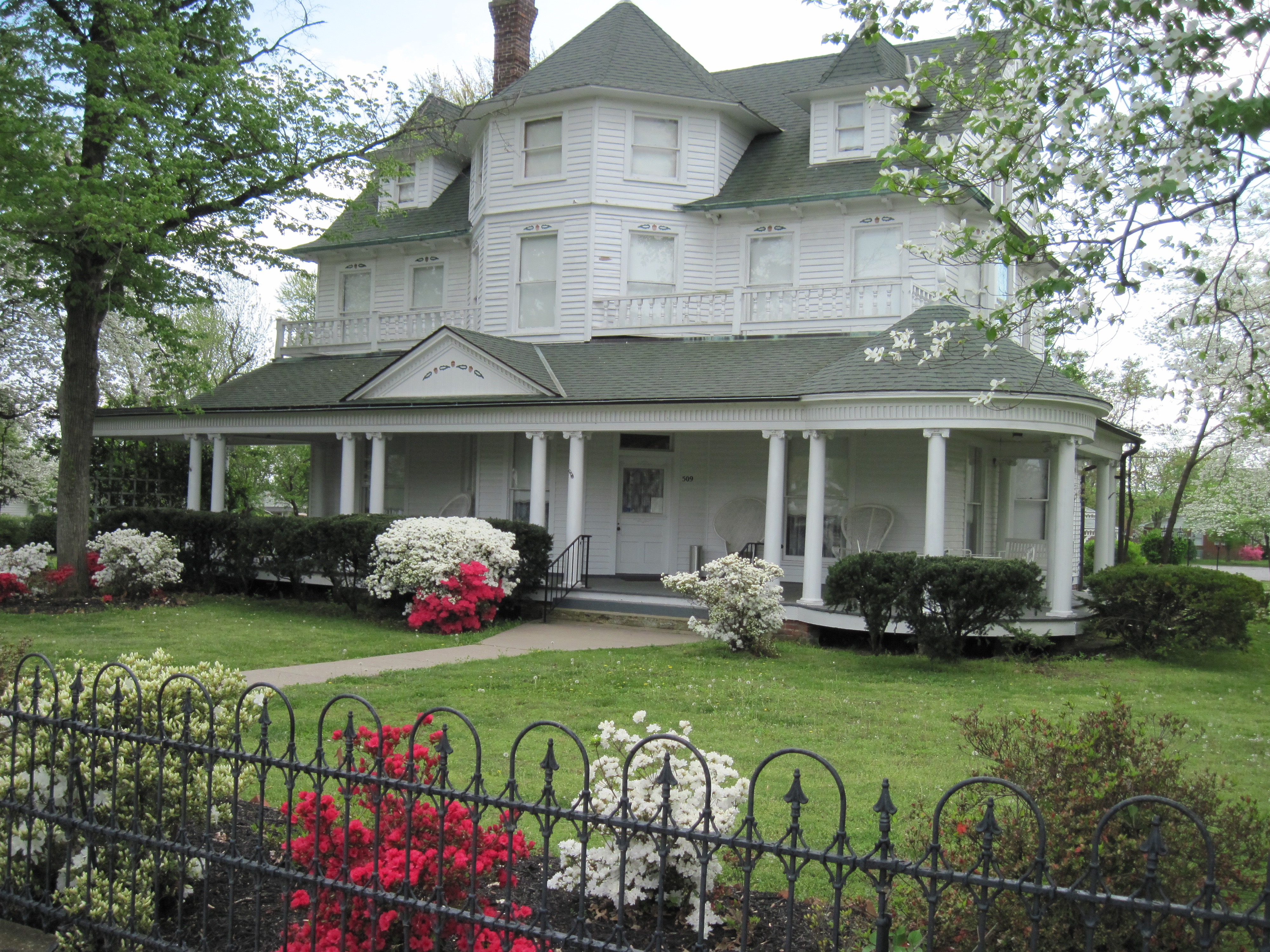 A front view of the Barlow House Museum